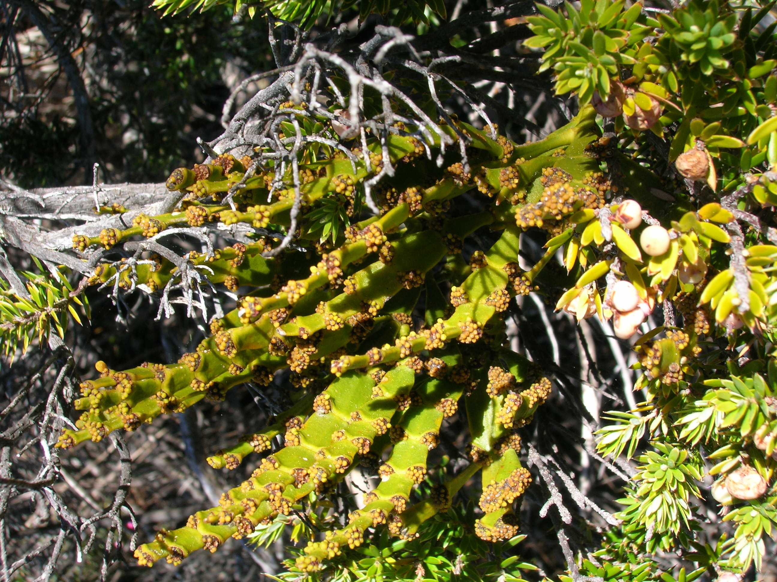 Korthalsella complanata (on pukiawe). Location: Maui, Polipoli